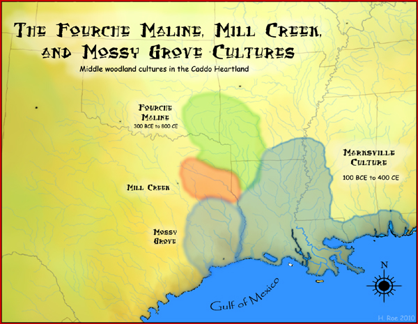 A map showing the Fourche Maline culture, Mill Creek culture, Mossy Grove culture, and Marksville culture.